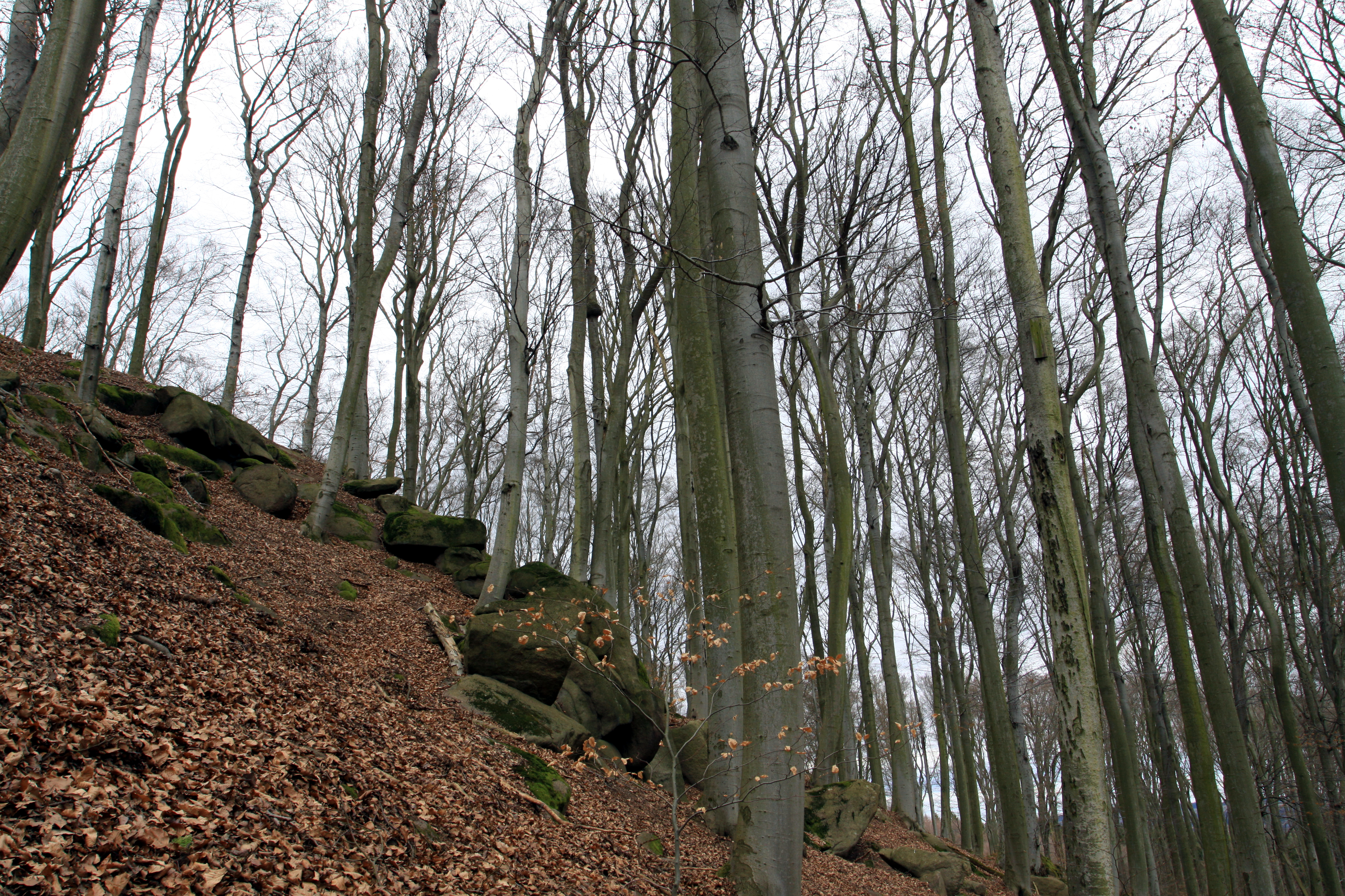 Nature reserve Grabla near Krhanice village in Benešov District, Czech republic